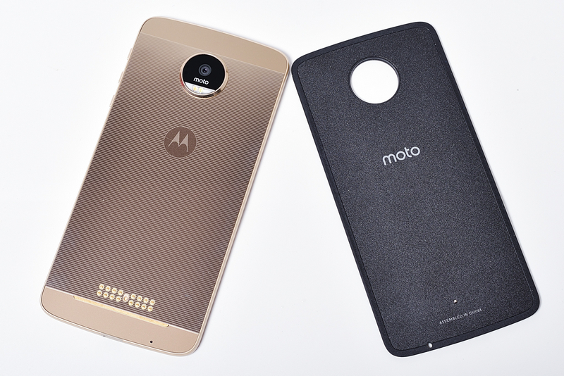 Moto Z